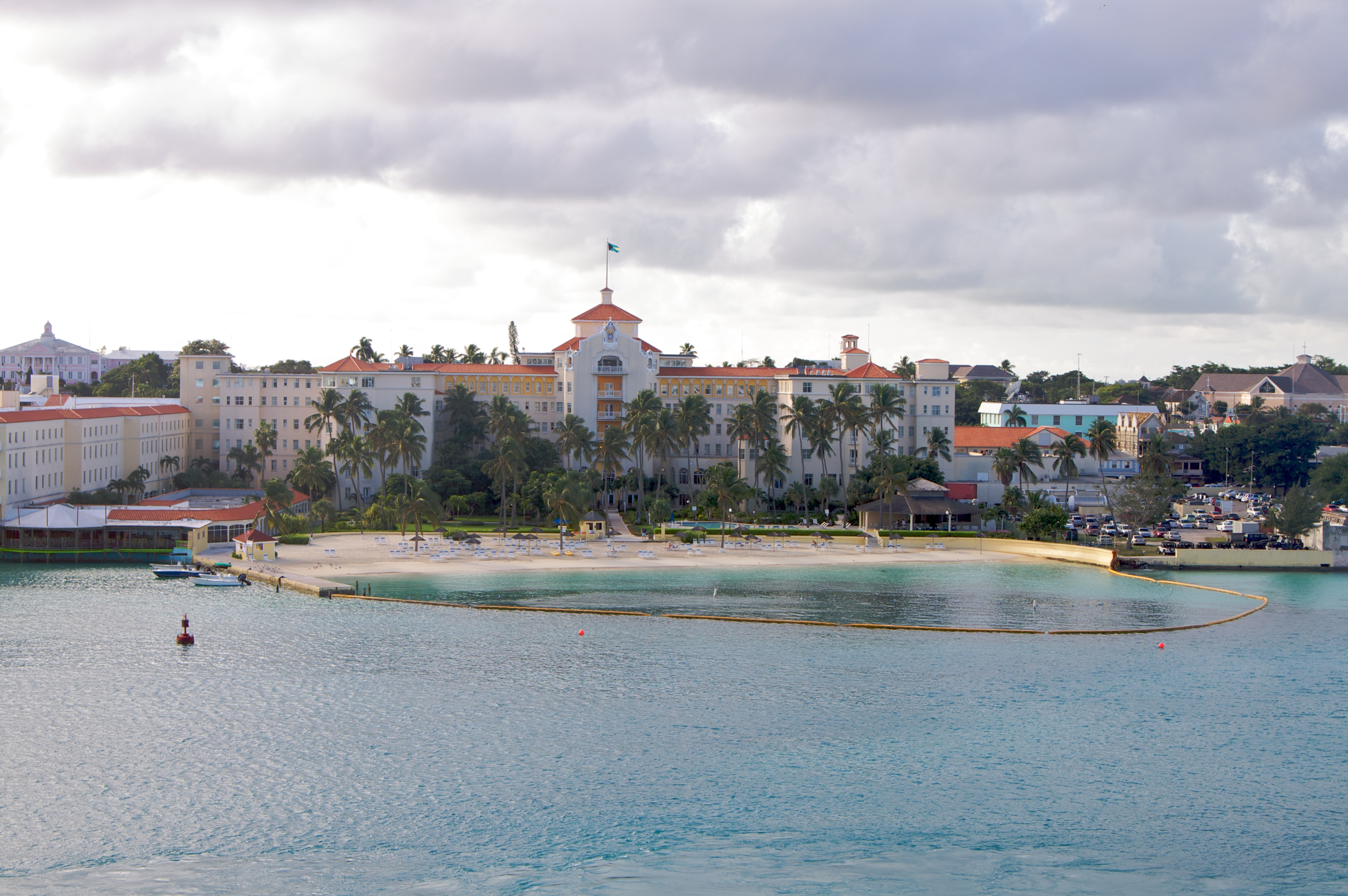 British Colonial Hilton Hotel, Nassau